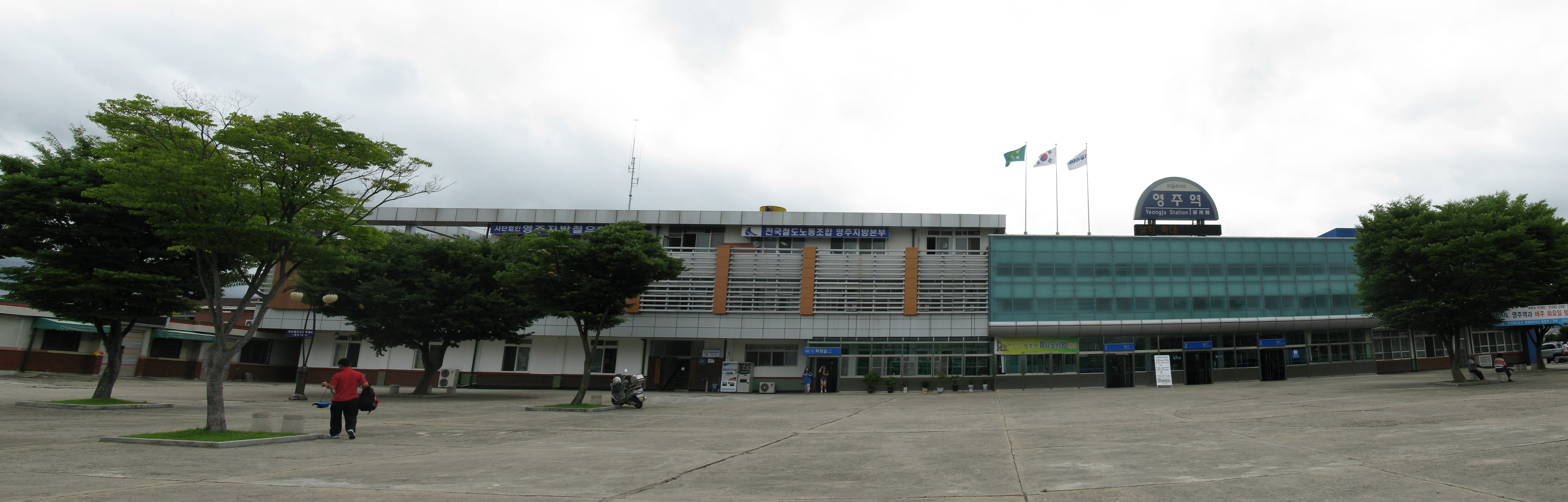 Jungang, Yeongdong, Gyeongbuk Line Yeongju Station